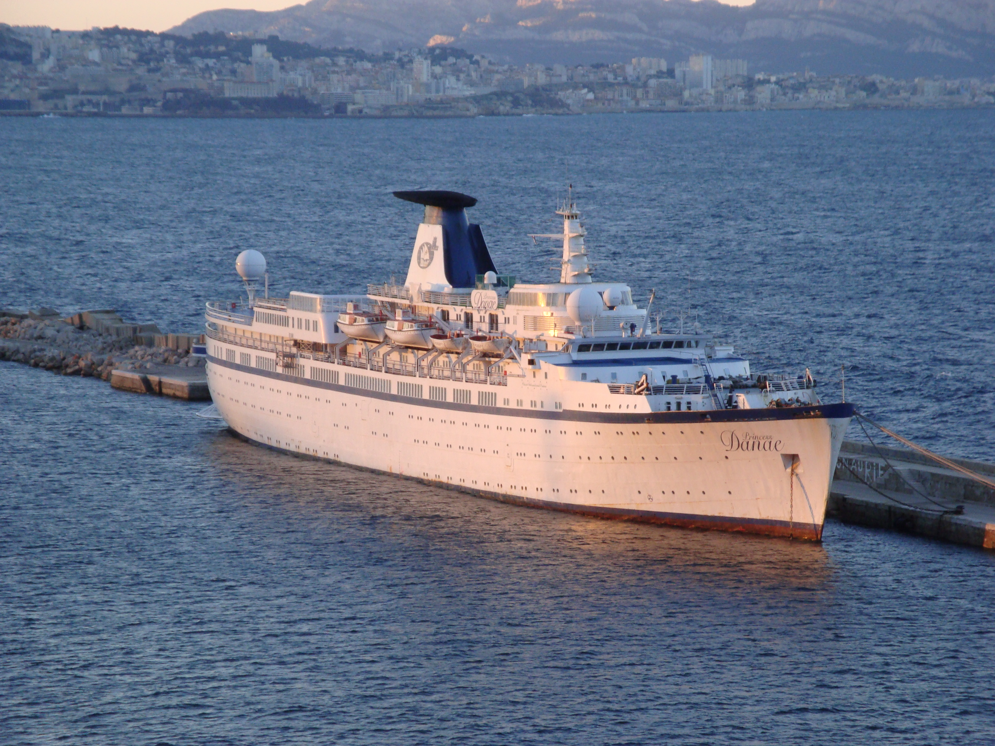 The cruise ship Princess Danaé arrested at Marseille on March 31, 2013, after the bankruptcy of Classic International Cruises.